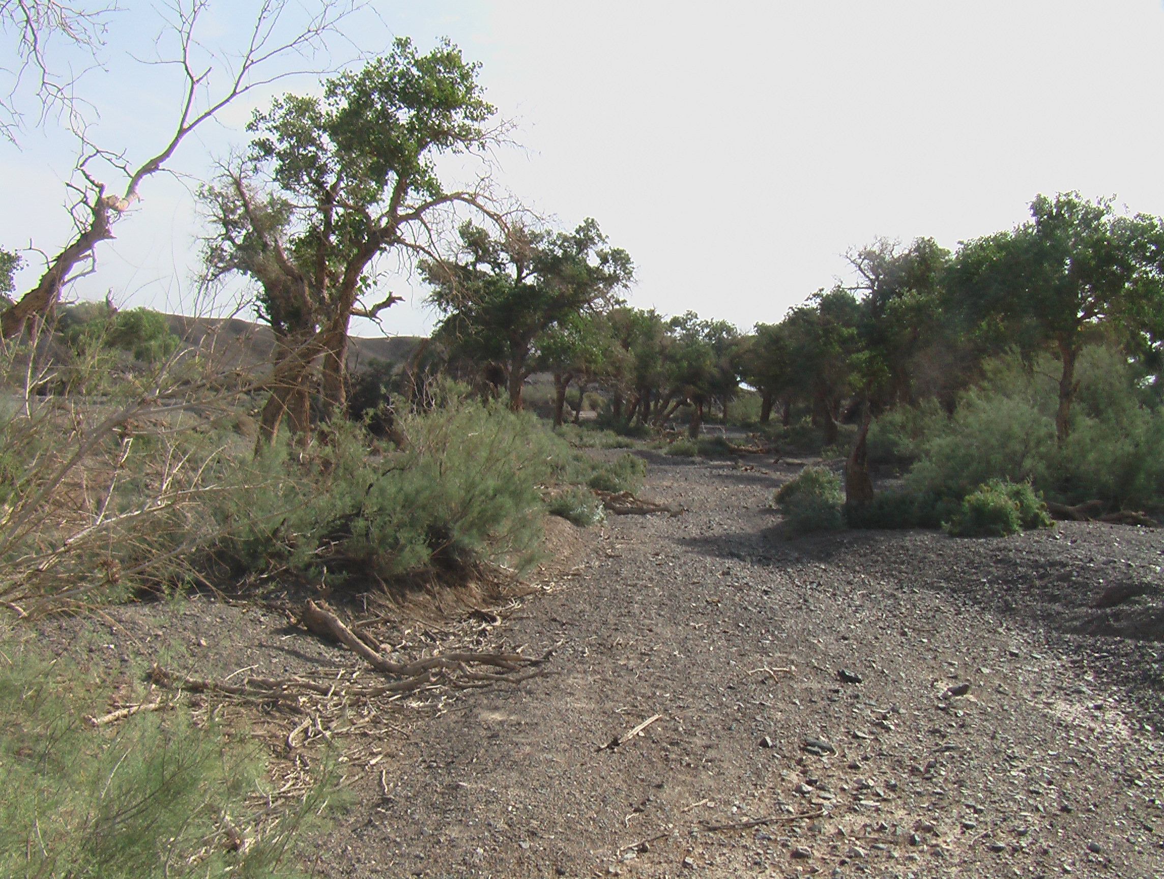 Populus euphratica (syn. P. diversifolia), Ekhiin-Gol oazis, Shinejinst sum, Bayankhongor province, Mongolia, Gobi desert Populus trees and Tamarix bush